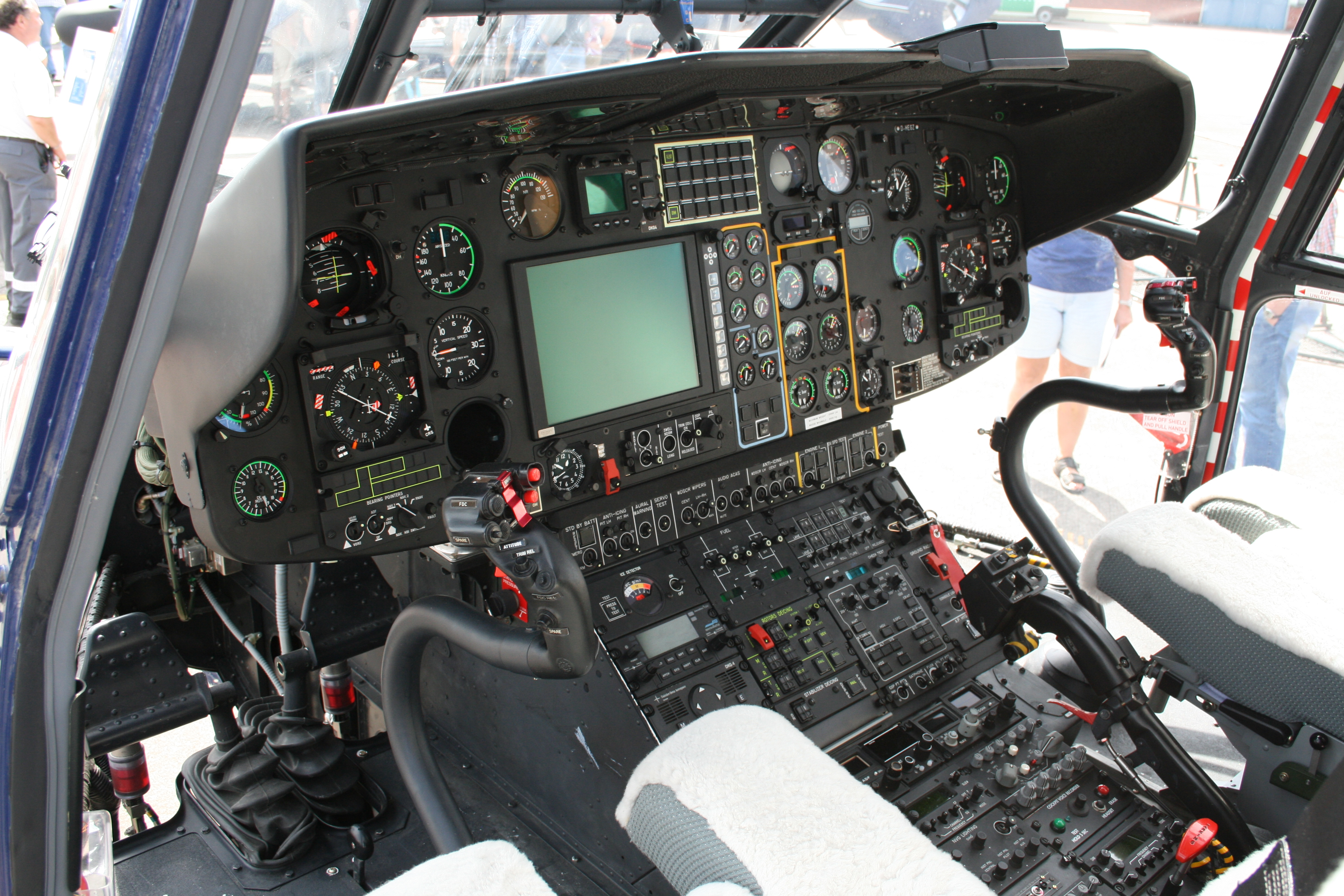 Cockpit Eurocopter AS 332 L1 Super Puma (D-HVBX); German Federal Police, Aviation Service. Taken at Bonn/Hangelar Airfield during open day/airport party and airshow